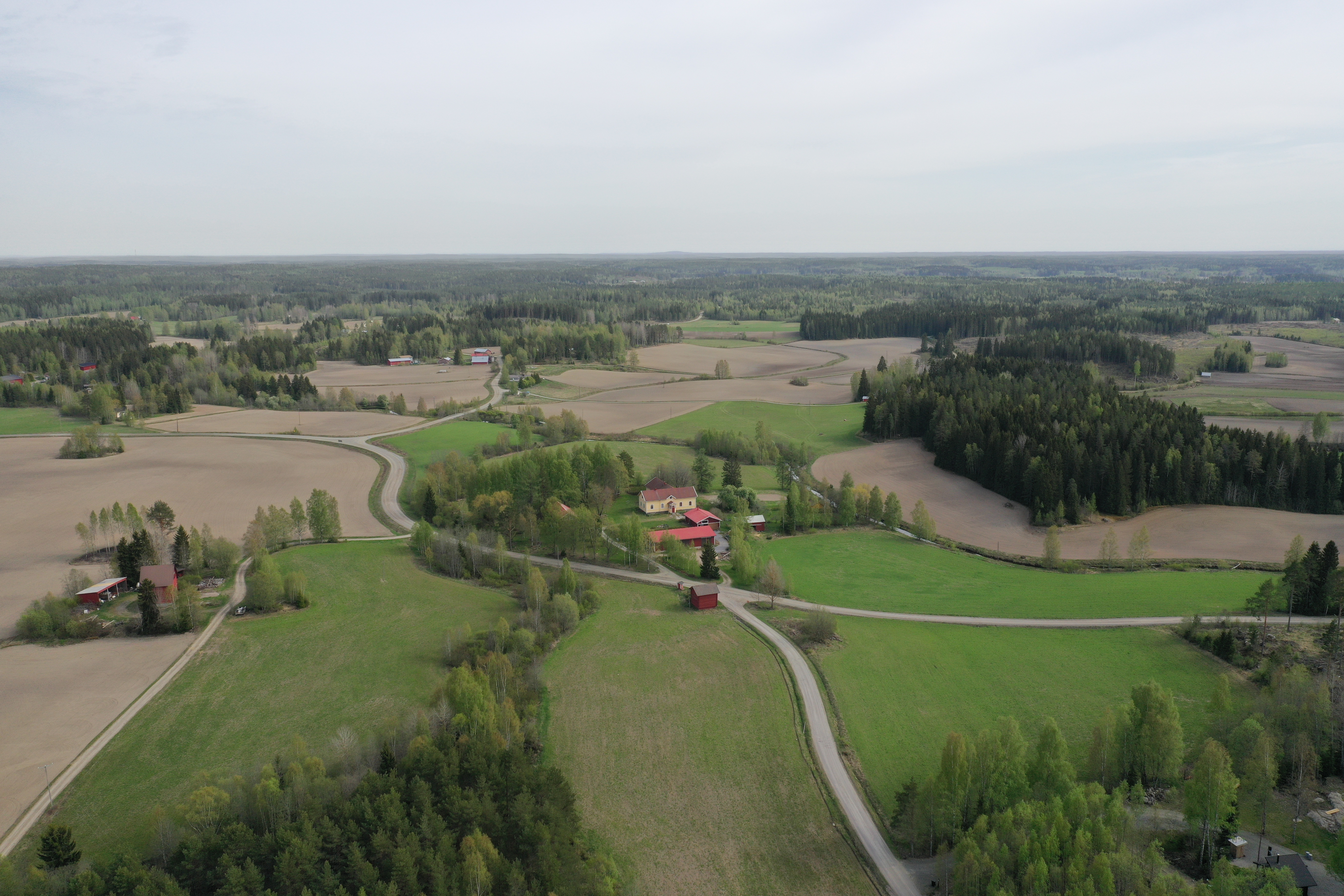 View of Lahdenperä village in Suodenniemi, Finland